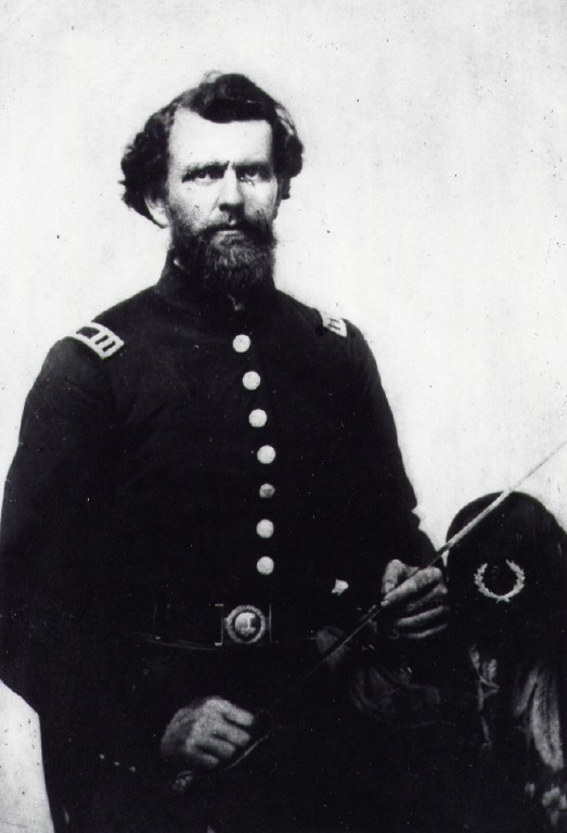 Axalla J. Hoole, 8th South Carolina infantry lieutenant colonel